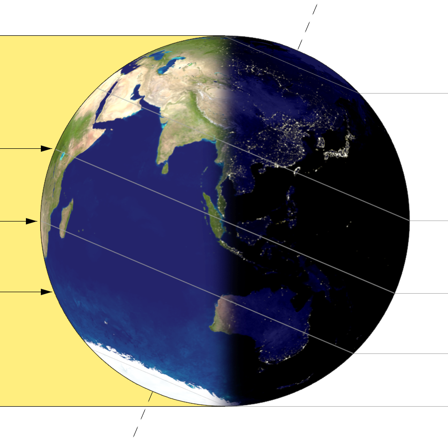 This is a cropped Hungarian version of the image ( Earth-lighting-winter-solstice EN.png). For description see it.